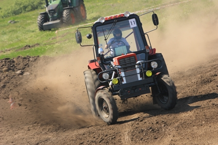 Tractor racing/pulling «Bizon-Treck-Show» in Rostov-on-Don, Russia.